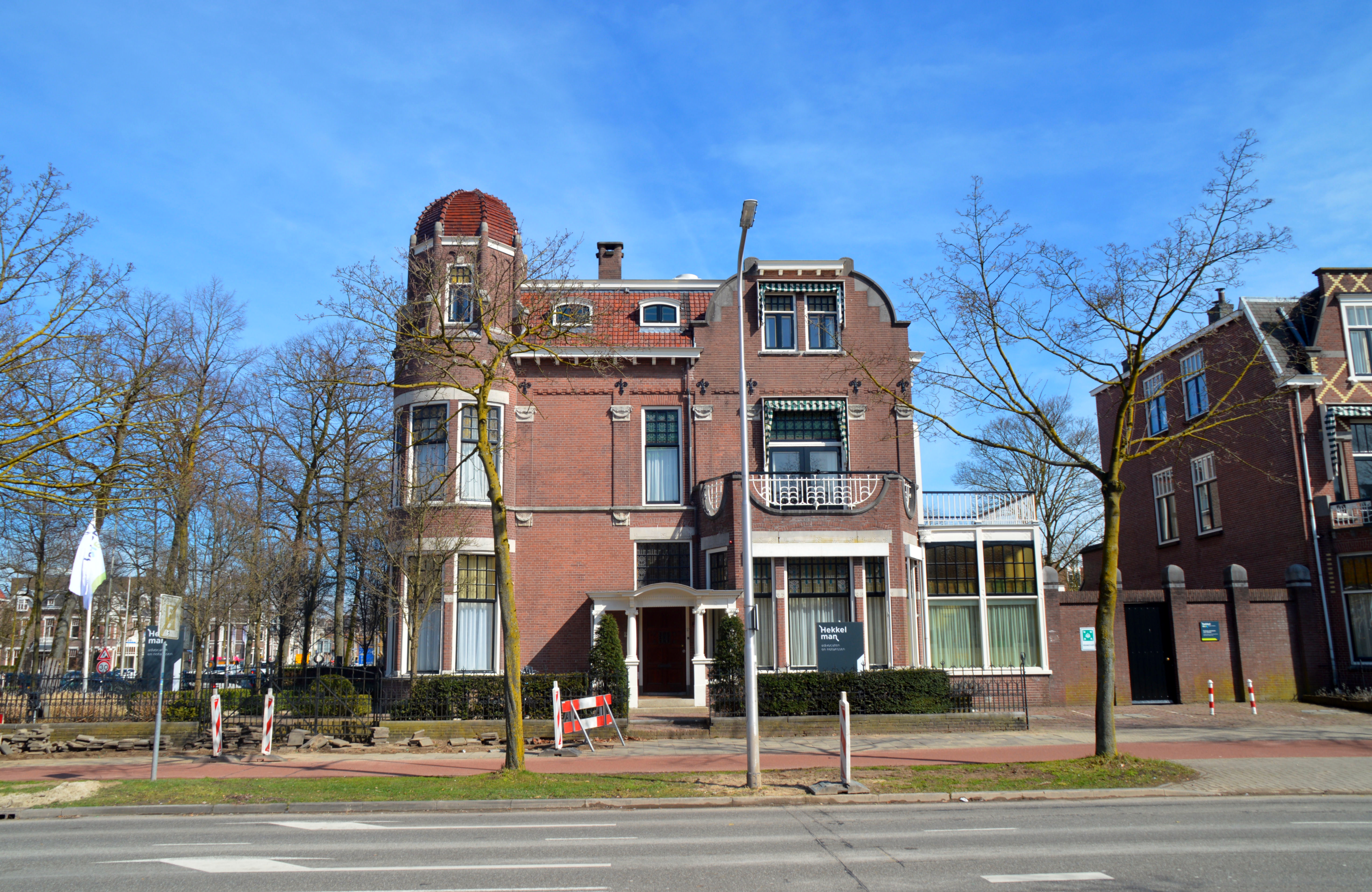 House Lambertus Cornelis van Engelenburg Prins Bernhardstraat 1 Nijmegen by Architect Oscar Leeuw 1909